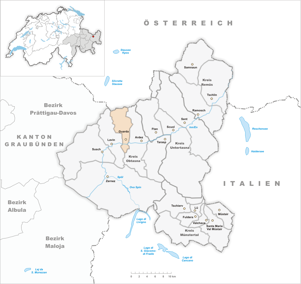 Municipality Guarda